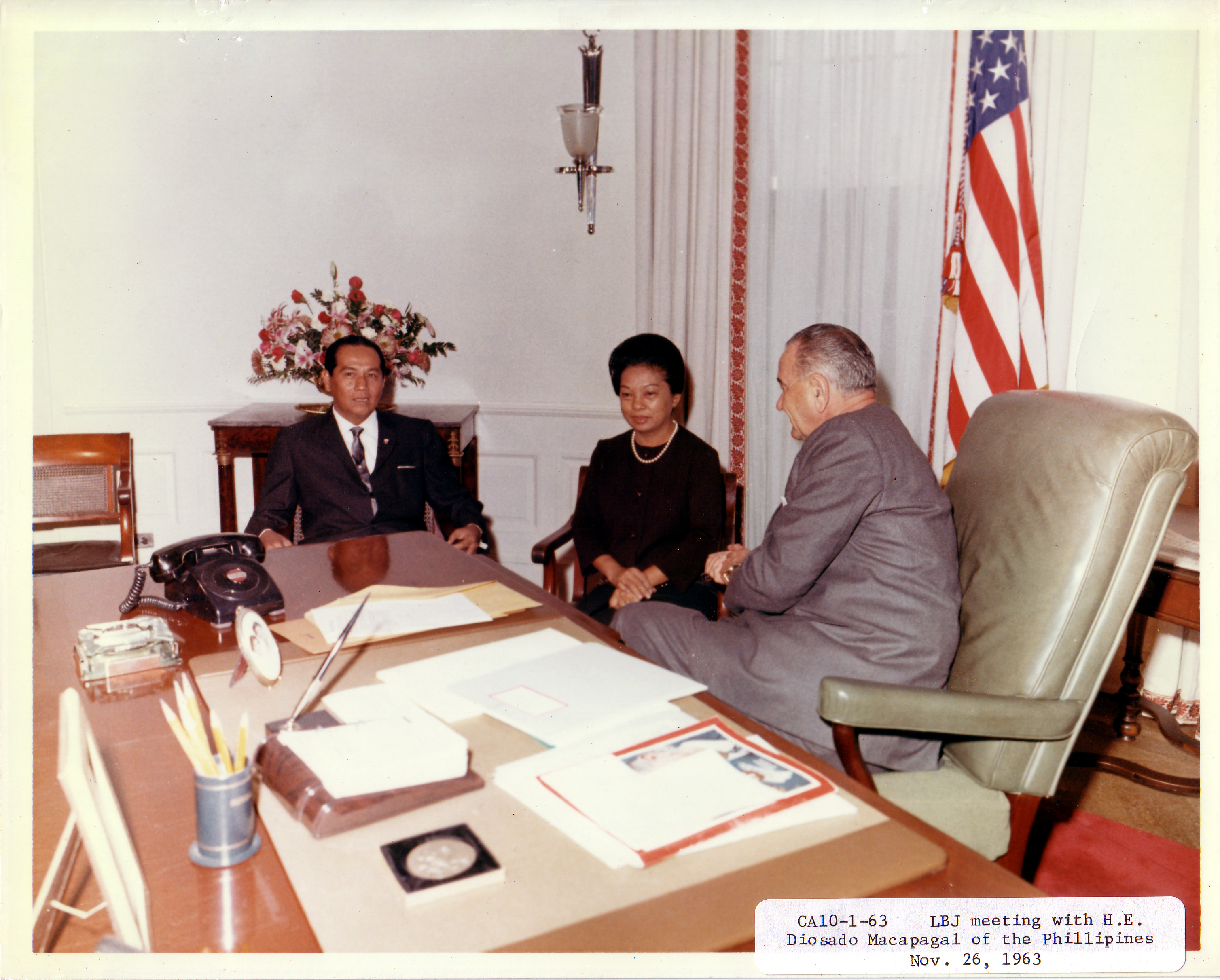 President Lyndon B. Johnson meets with H. E. Diosdado Macapagal of the Phillipines in the Oval Office shortly after taking office